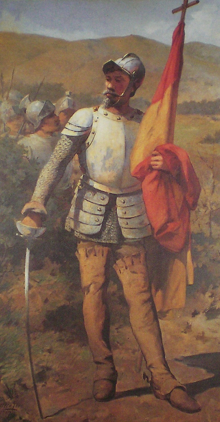 Diego de Losada. Portrait done by Herrea Toro in the early 20th century. The painter has anachronistically depicted the conquistador with the red-and-yellow Spanish flag, which was created in the 18th century, two centuries after the conquest.